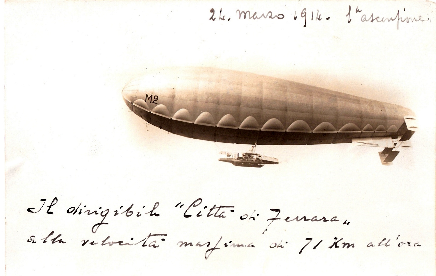 "City of Ferrara" Airship. The original picture, by Carlo Burzagli, is dated 1914 03 24, was scanned by Emiliano Burzagli, and belongs to the Private archive of Burzagli family, Italy.